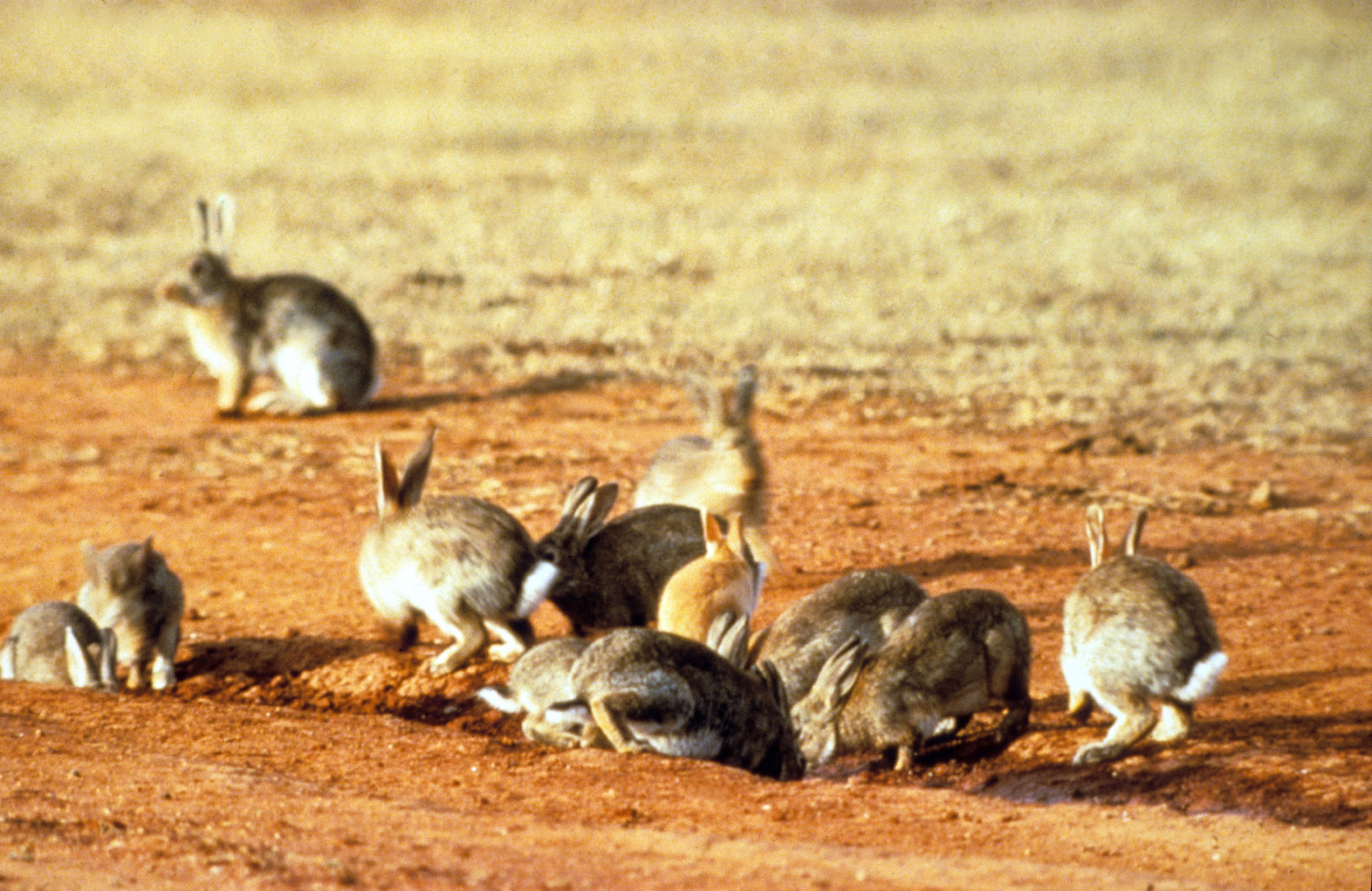 European rabbit (Oryctolagus cuniculus). Rabbits are one of Australia's most widespread and destructive pest animals threatening the viability of native plant and animal species. They contribute to soil erosion by removing vegetation and disturbing soil and they compete with native wildlife for food and shelter, increasing their exposure to the danger of predators. Photo credit: Liz Poon